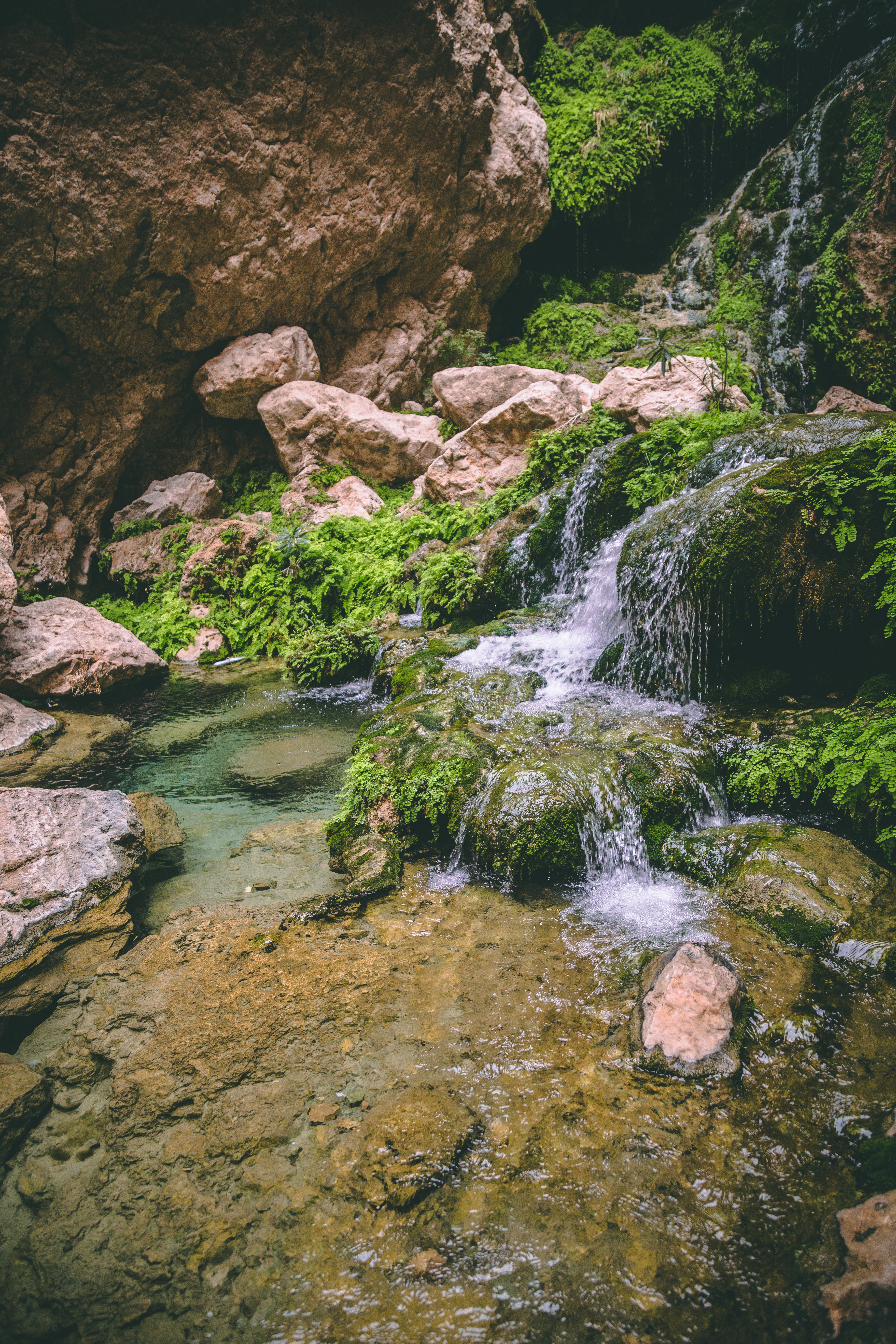 Chota Chotok